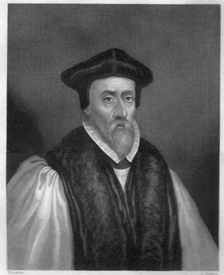 Portrait of John Hooper